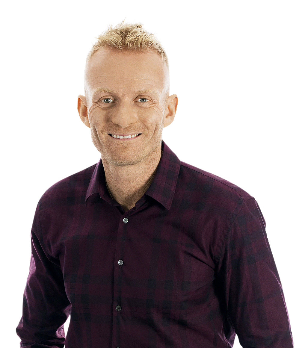 Portrait photo of Matt Cain (writer), the British author of The Madonna of Bolton.